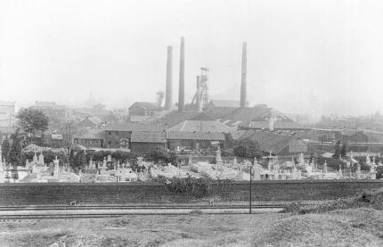 Kessales Coal Mine in Jemeppes, Liège, Belgium